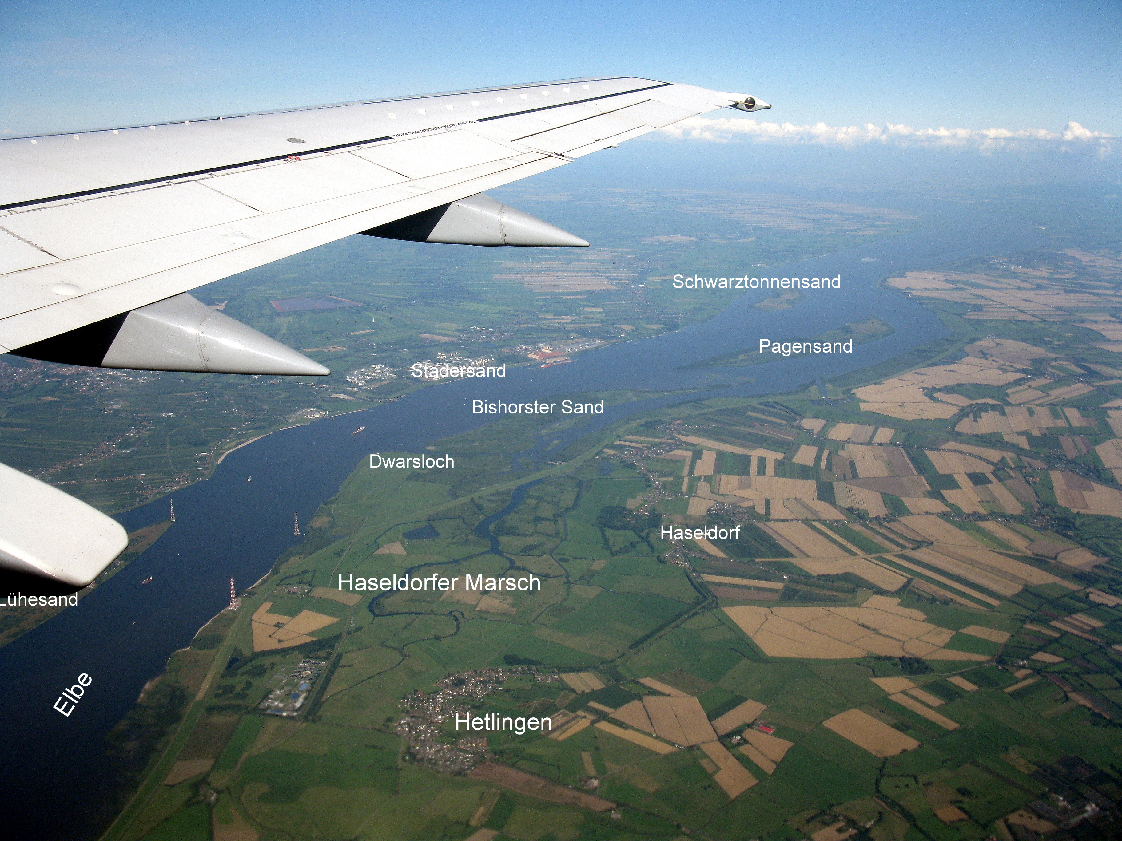 Aerial Picture of the German river Elbe with the islands Pagensand, Bishorster Sand and Schwarztonnensand